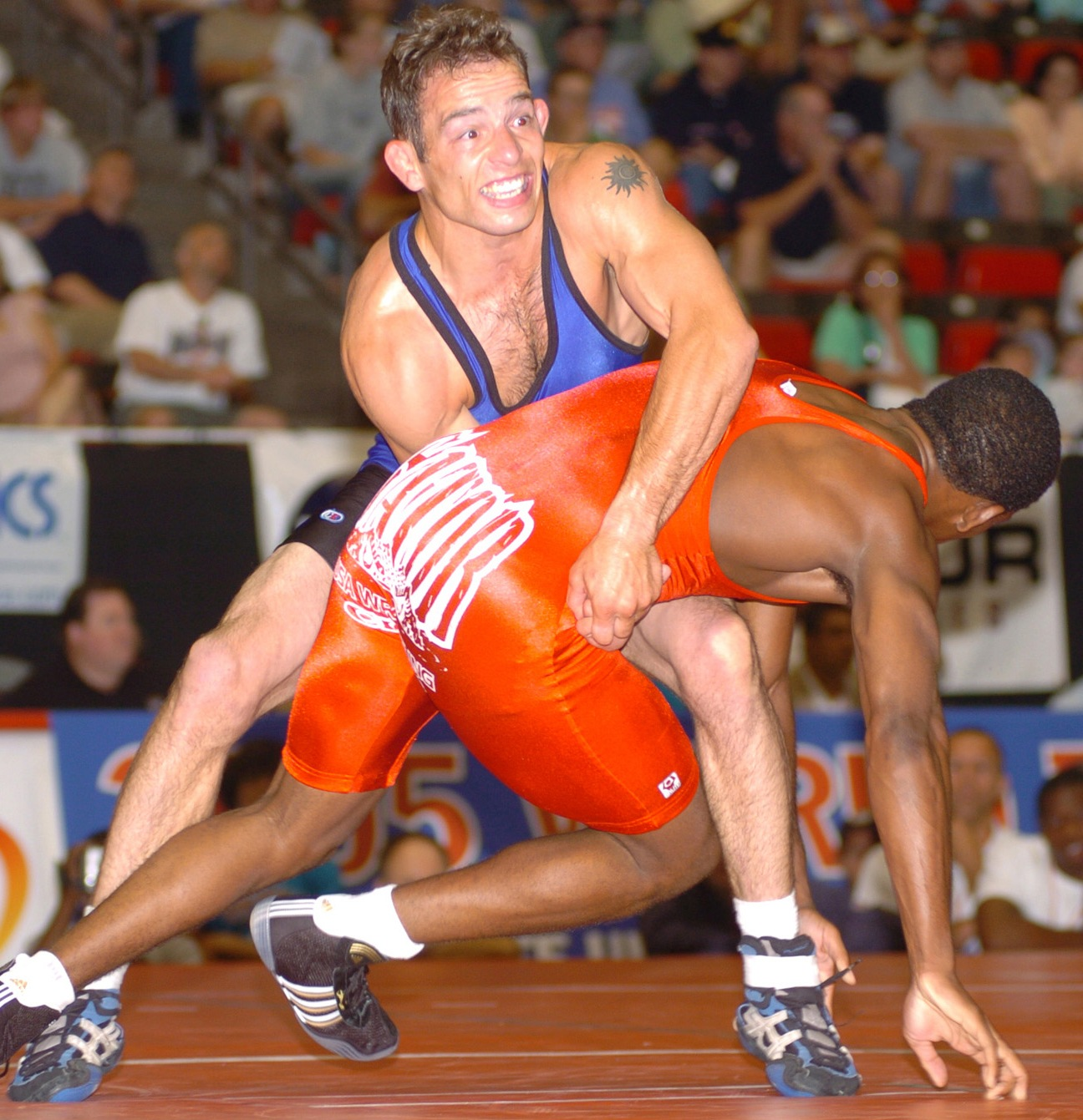 June 23, 2005 Army World Class Athlete Program wrestler Sgt. Glenn Garrison lifts Gator Wrestling Club's Harry Lester during the 145.5-pound Greco-Roman finals of the 2005 U.S. Wrestling World Team Trials June 19 at Ames, Iowa. Lester won the best-of-three series two matches to one to make his first World Team.